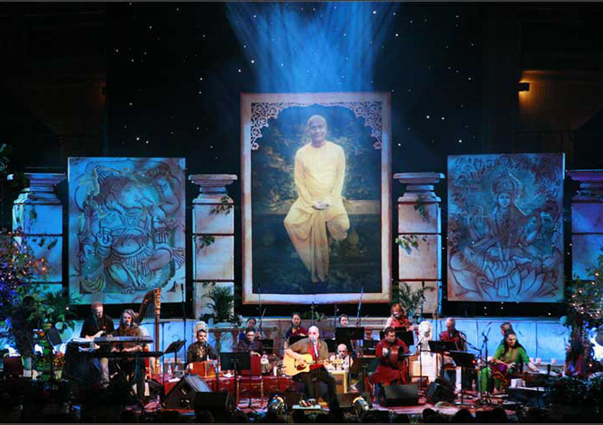 In honour of the life of Indian spiritual teacher and philosopher Sri Chinmoy (1931-2007), in May 19th 2008 an international ensemble of musicians performed to a capacity audience at London's Royal Albert Hall.